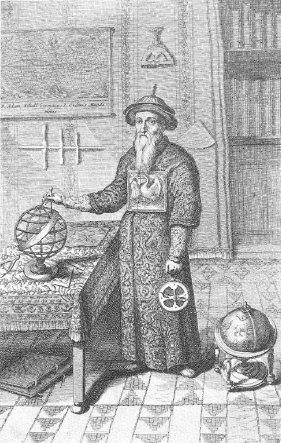 A portrait of Father Johann Adam Schall von Bell, childhood friend and court astronomer to Qing emperor Shunzhi